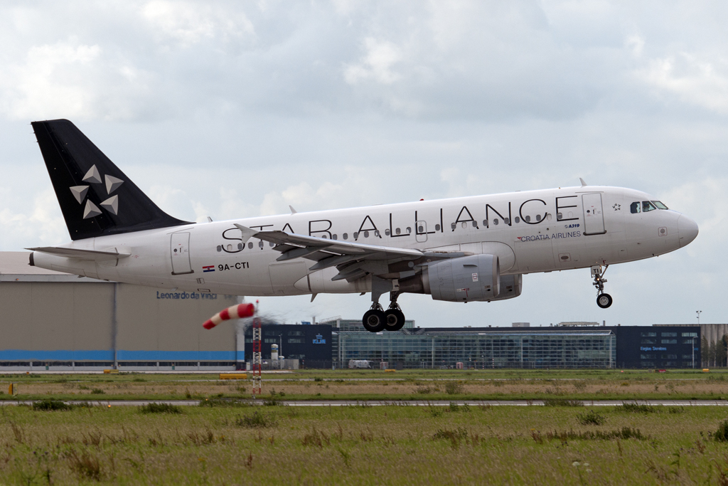 Star alliance print. Airbus A319-112 Amsterdam schiphol [AMS / EHAM] 23-07-2011